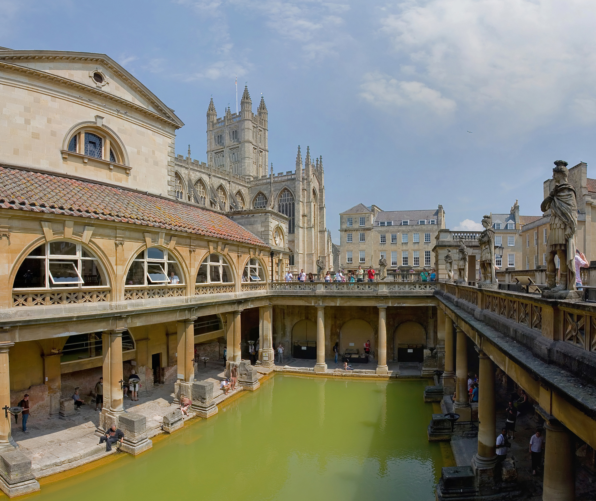 The Roman Baths (Thermae) of Bath, England. This is a 6 segment panorama taken by myself with a Canon 5D and 24-105mm f/4L IS lens.